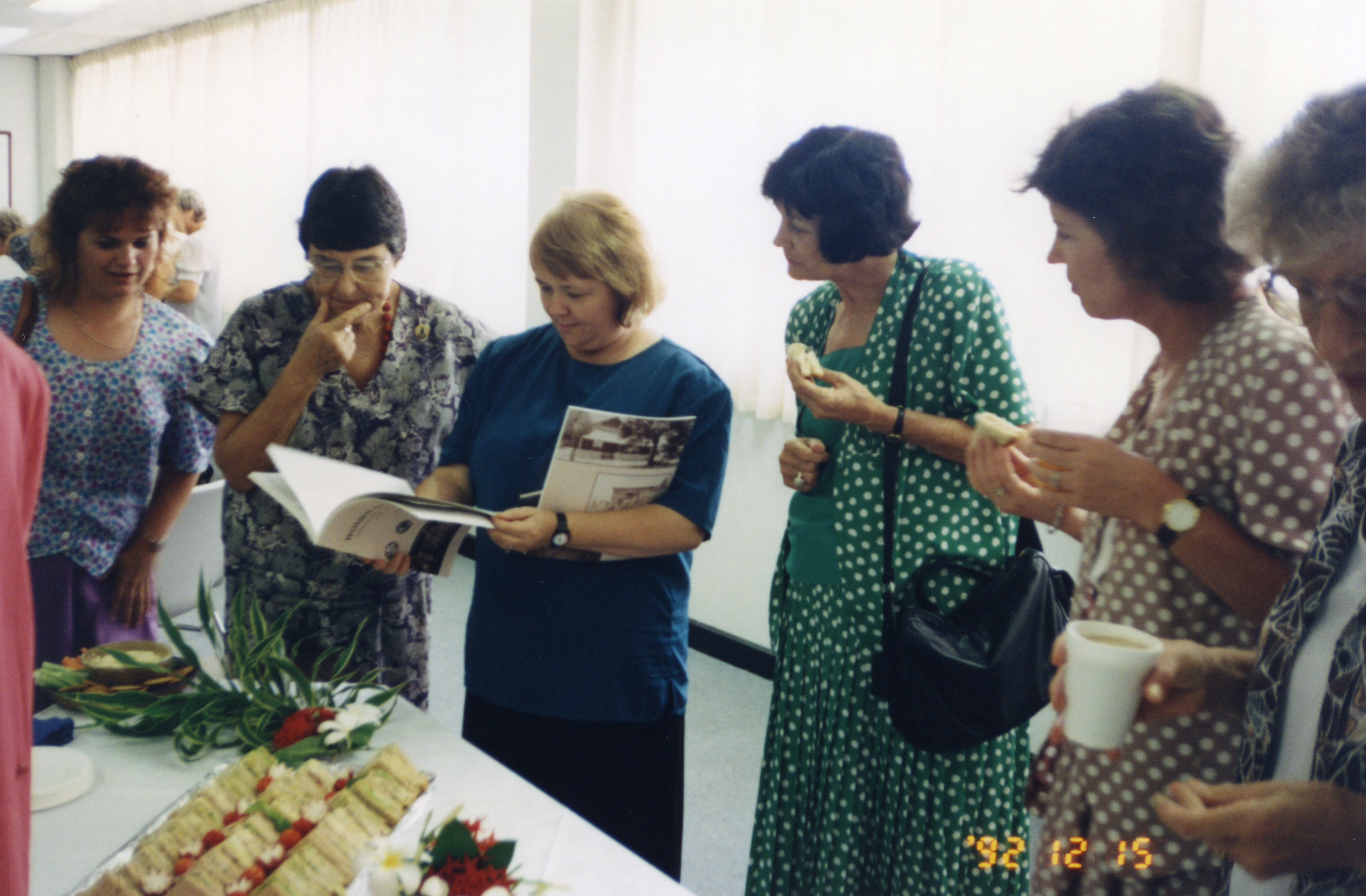 Barbara James at a book launch. PH0554-0010